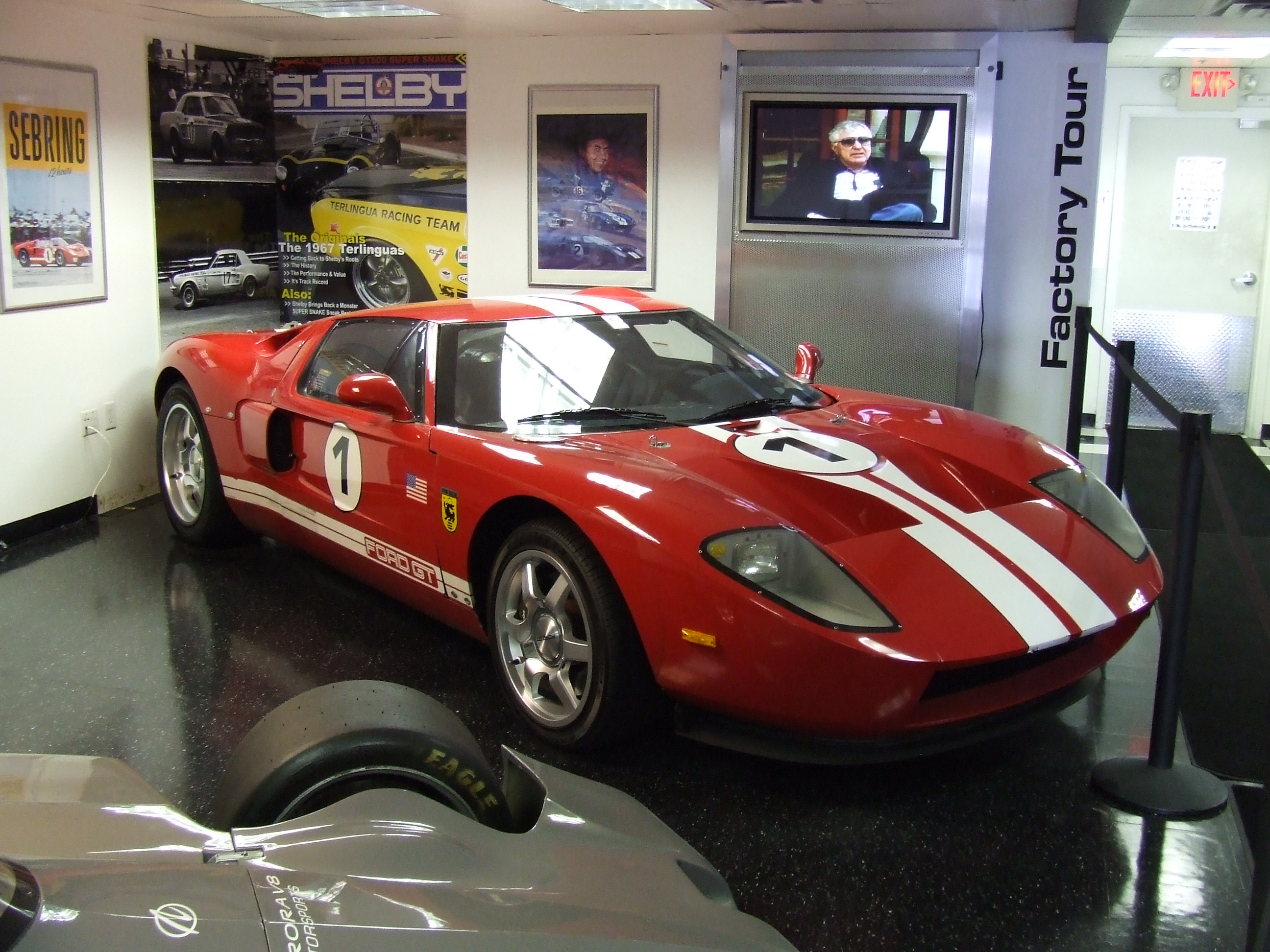 Ford GT prototype, the first prototype "Workhorse 1", at the Shelby American Museum in Las Vegas, Nevada. "Three production prototype cars were shown in 2003 as part of Ford's centennial, and Carroll Shelby was one of the drivers at that event. He provided imput on "Workhorse 1" which was the first prototype Ford GT. This priceless car does not have cutaway doors like the production version but instead features tape stripes outlining the future design feature." -Shelby American Museum